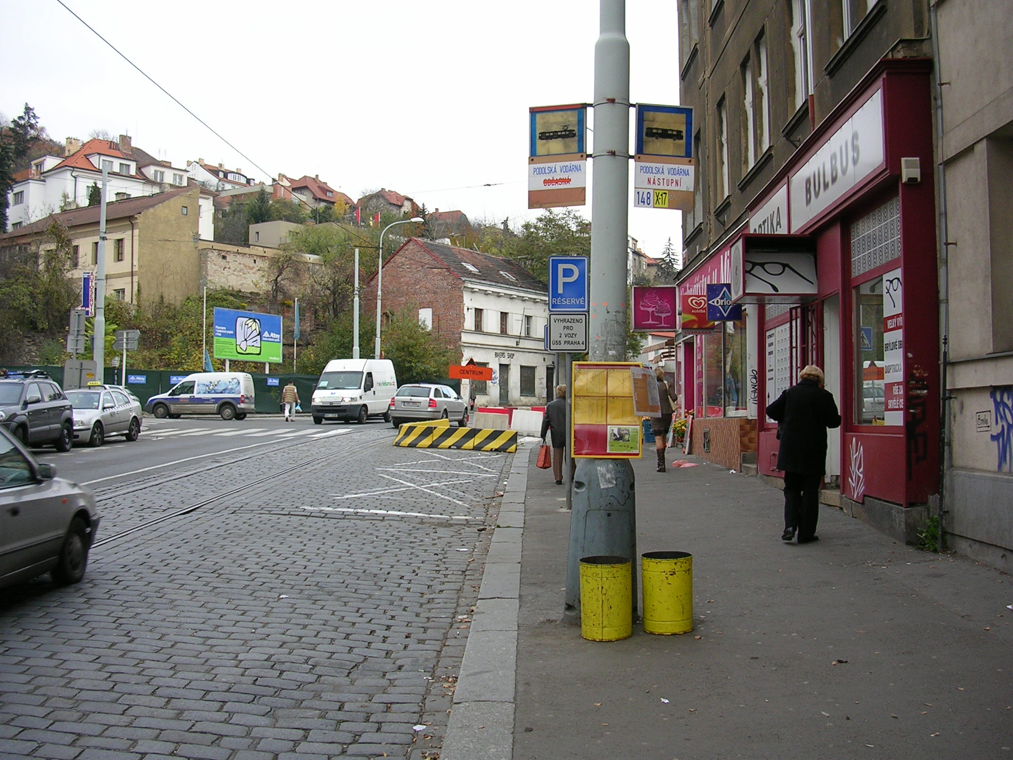 Podolí, Prague.